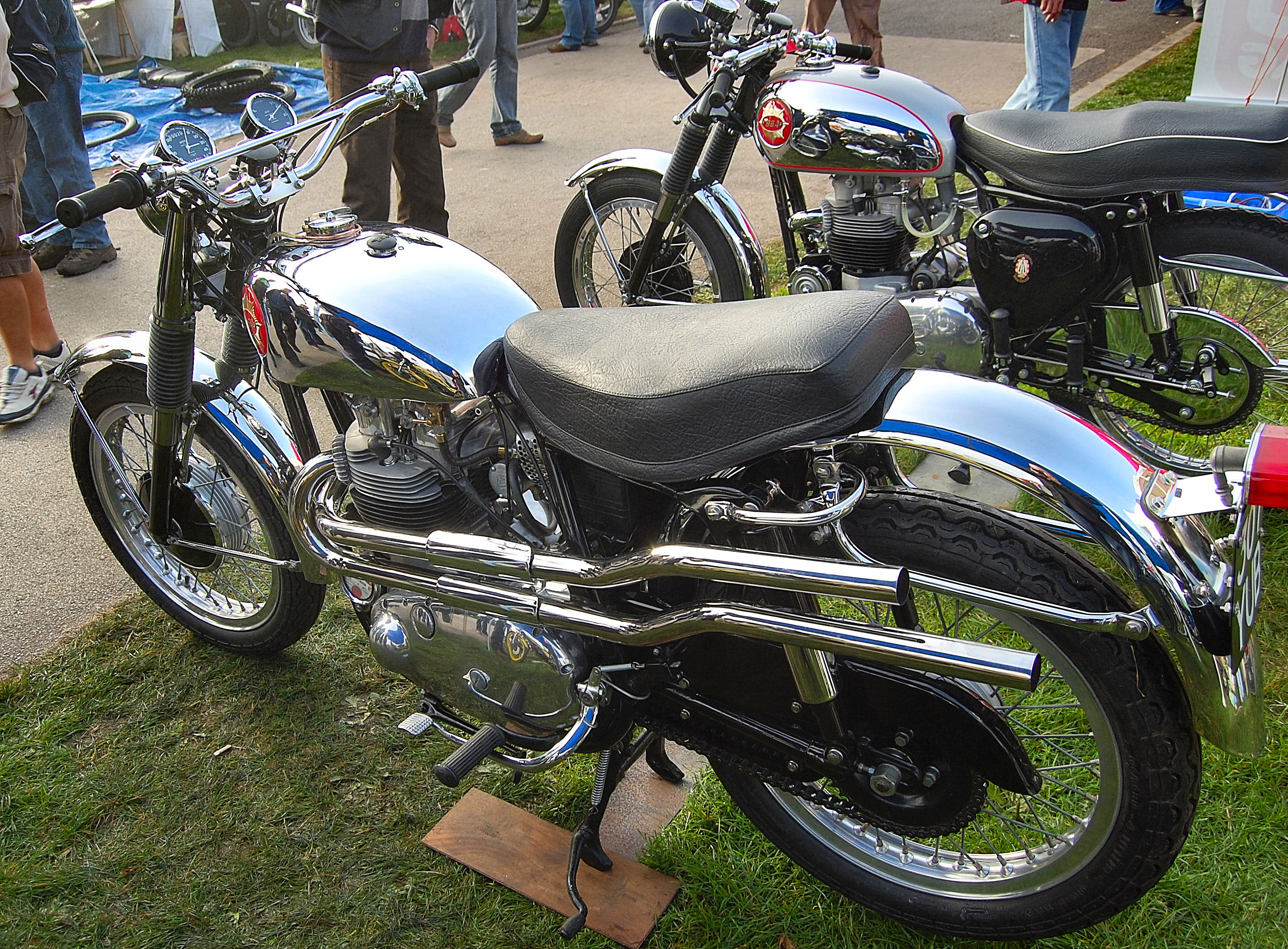 The BSA Rocket Gold Star is a British motorcycle that marked the final stage of development of the BSA A10 twins. With a specially tuned A10 Super Rocket engine in the well proven BSA Gold Star single frame, BSA created a very fast bike (for the time) with good handling fast bike that became 'classic'. Surviving models are in such demand today that 'fakes' (using Super Rocket parts) are sold as originals. Development Manufacturer BSA Production 1962-63 Predecessor BSA Super Rocket Engine 646 cc air cooled twin Power 50 bhp (37 kW) @ 6,250 rpm Transmission four speed gearbox to chain drive Wheelbase 54.75 inches (139.1 cm) Dimensions L 84 inches (210 cm) Fuel capacity 3.5 imperial gallons (16 l; 4.2 US gal) Launched in February 1962, the total BSA Rocket Gold Star production was 1,584 bikes, of which 272 were off-road scramblers.[1] The Super Rocket compression was increased from 8.25 to 9:1 with a BSA Spitfire camshaft and an Amal Monobloc carburettor gave 46 bhp (34 kW) as standard. Options such as Siamese exhausts and a close-ratio RRT2 gearbox could increase this to 50 bhp (37 kW) – and add 30% to the price.[2] Nine specials were made for export to California and one was fitted with a sidecar by Watsonian for the Earls Court Show in October 1962. The main reason for the demise of the popular Rocket Gold Star was the emergence of new unit construction successors, which meant that production ended in 1963.